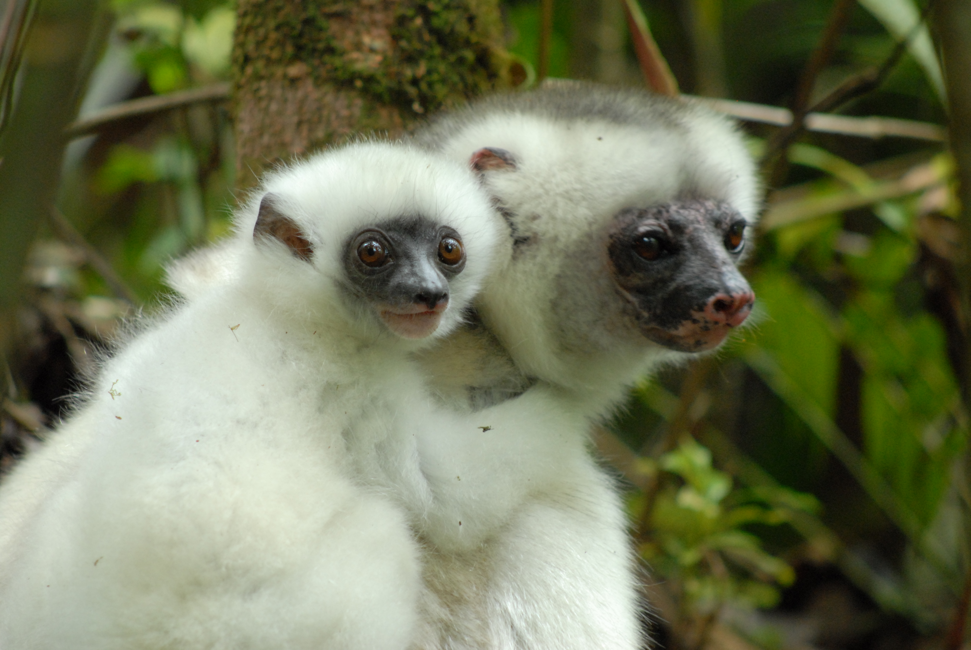 photo of silky sifaka I took of mother and infant in Marojejy National Park Madagascar